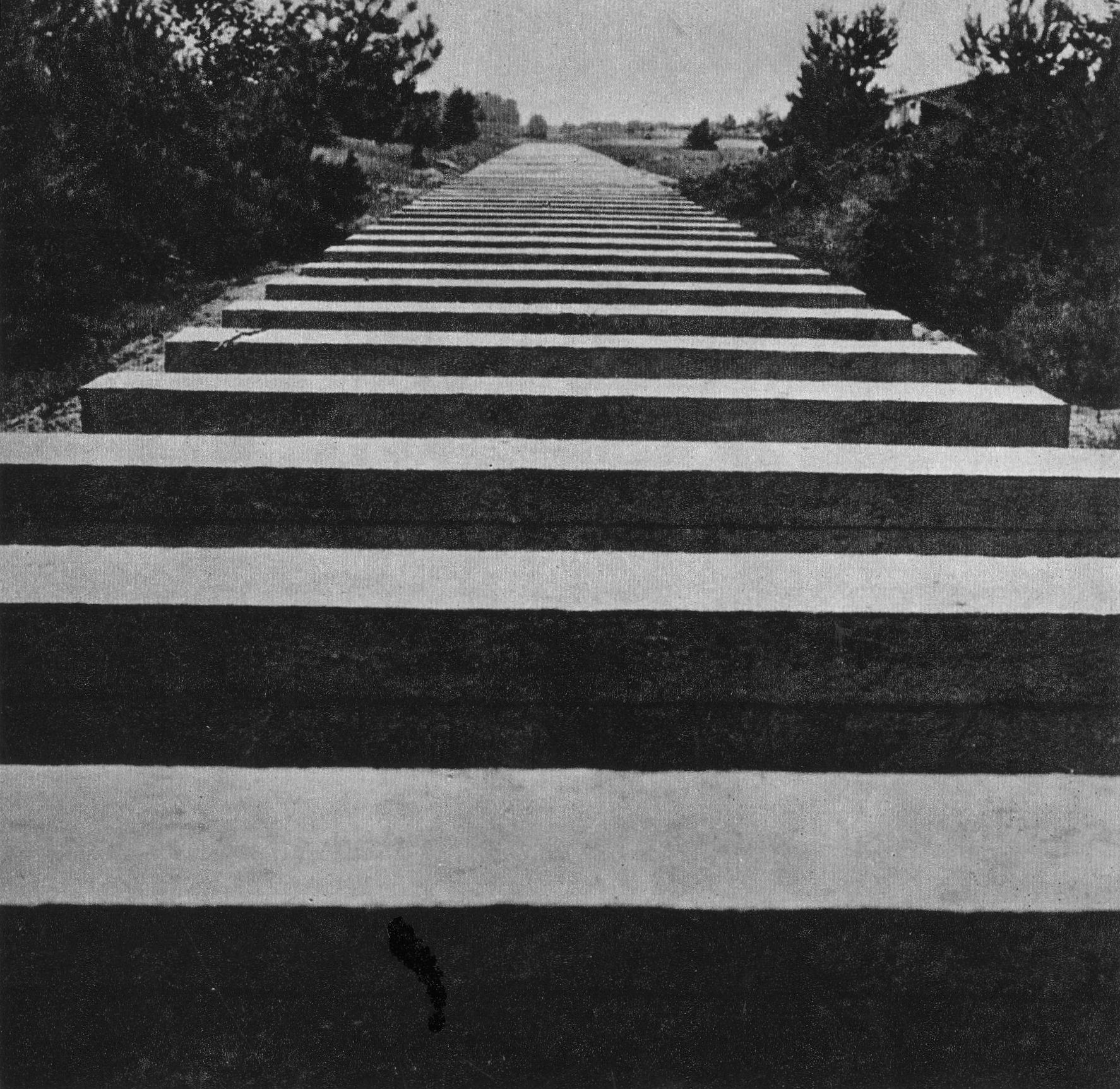 A part of Treblinka death camp memorial